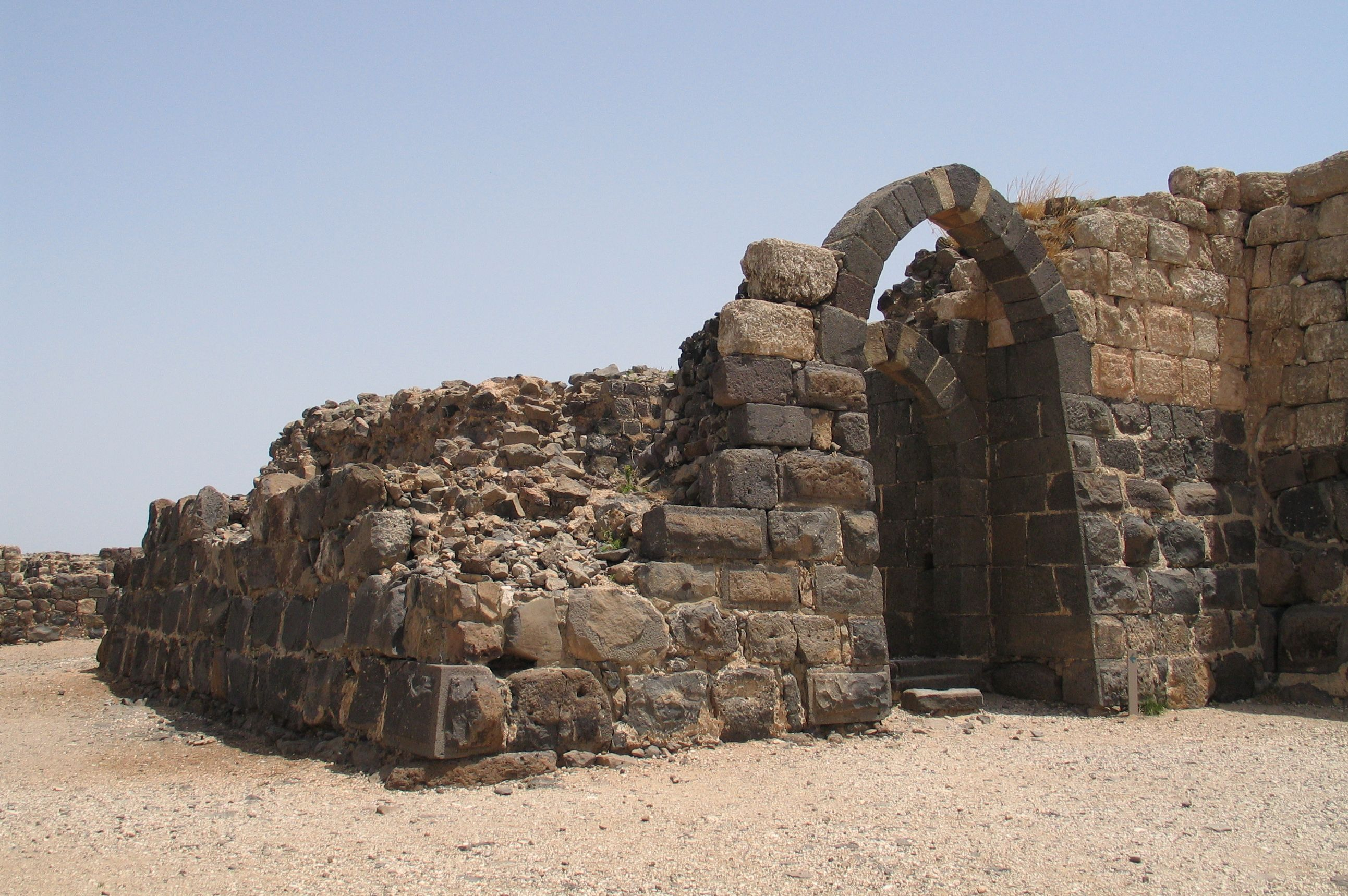 Belvoir fortress, Israel. The keep gate.